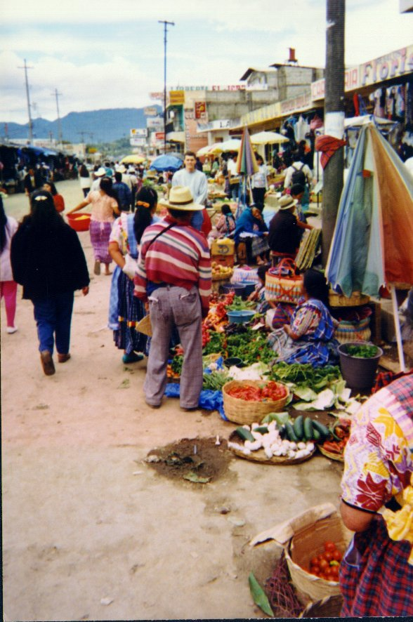 Typical market in Guatemala. 16 Avenida, Zona 3, Quetzaltenango, in the La Democracia market district.